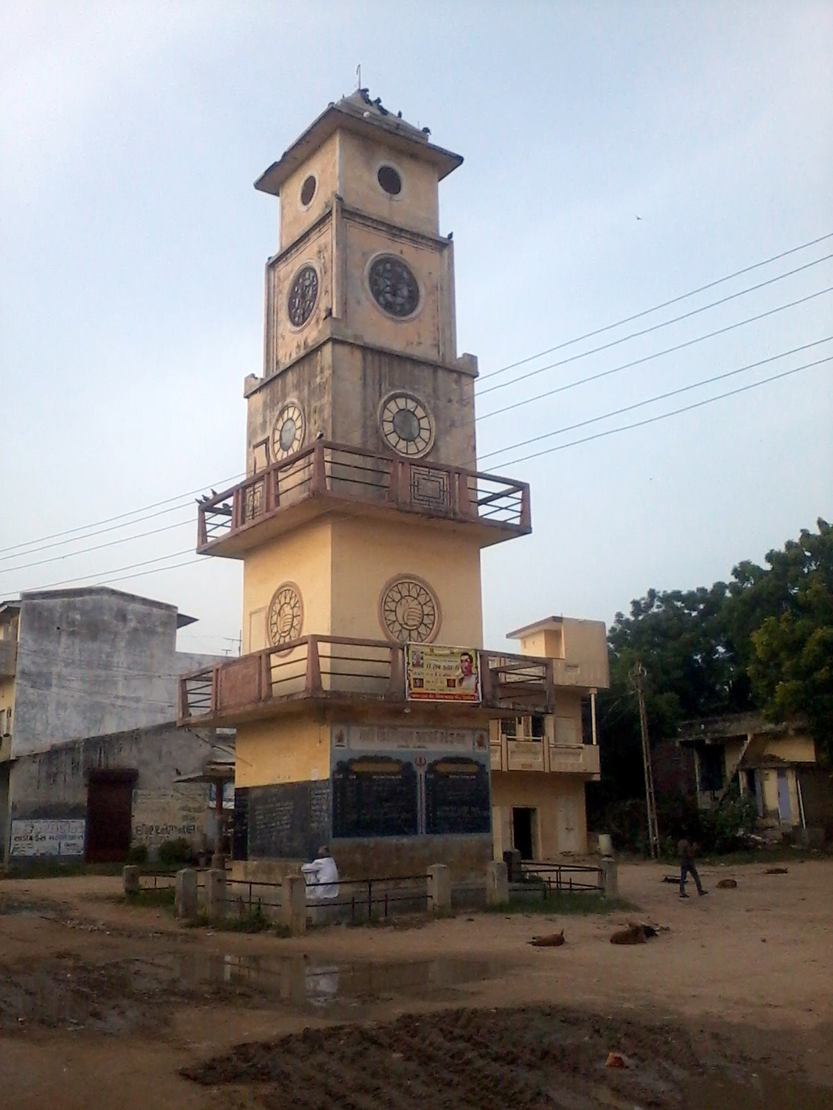 This is a tower of Gozaria town usually it is located in Gozaria town near Umiya mataji Temple.